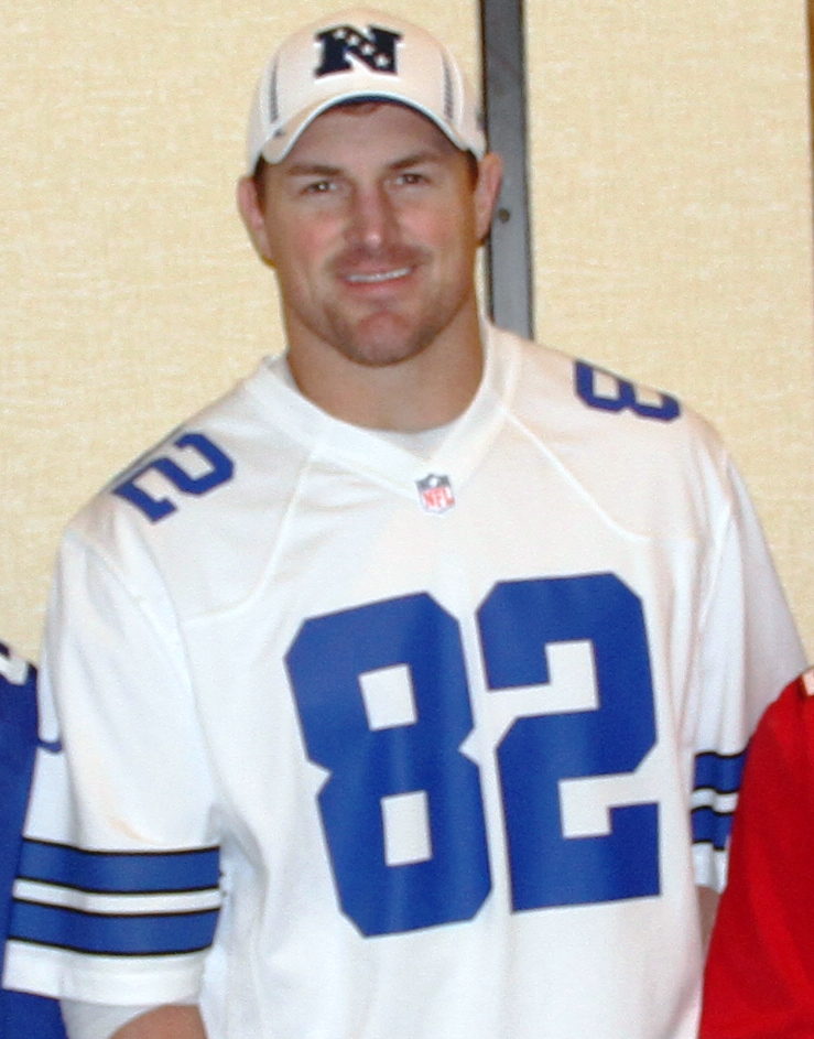 NFL player Jason Witten at the Wounded Warrior Luncheon in January 2013